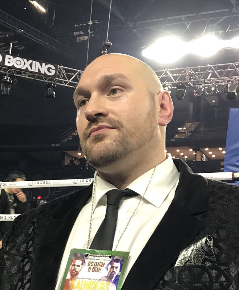 Tyson Fury talking to fans ringside after the Saunders Lemieux boxing event at Place Bell in Laval, Quebec, Canada on December 16th 2017